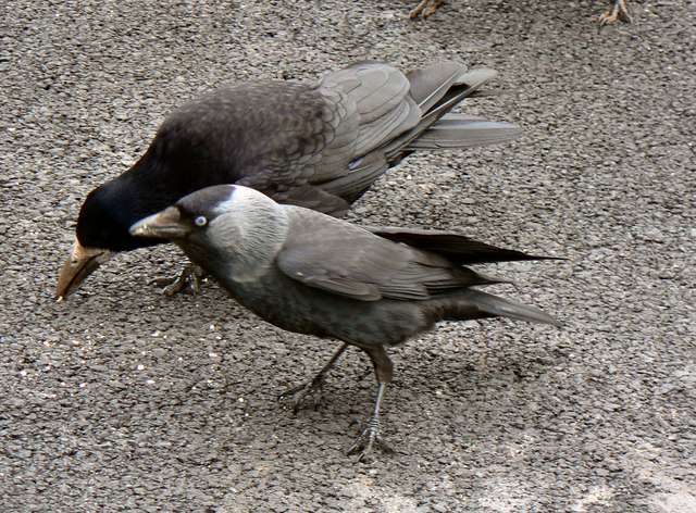 Guard of Honour, RAF Museum Cosford A variety of crows seem very welcoming at the museum. Not in best blue but in good livery anyway - A jackdaw and a Rook.